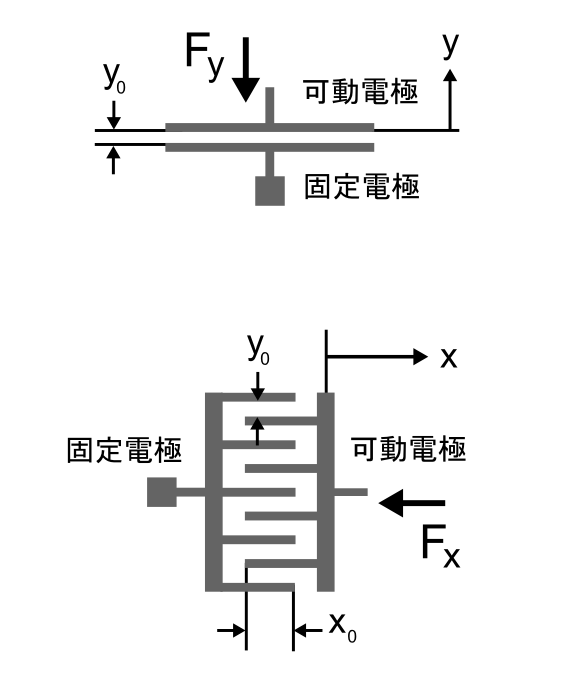 Electrostatic Actuators